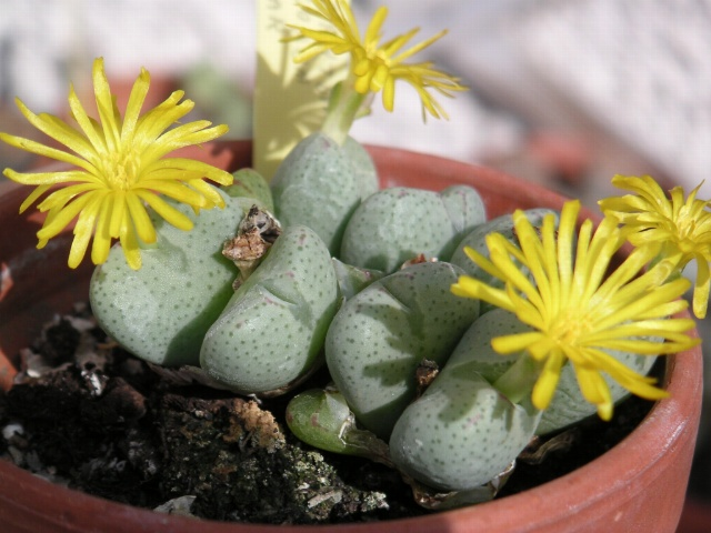 Personnal collection